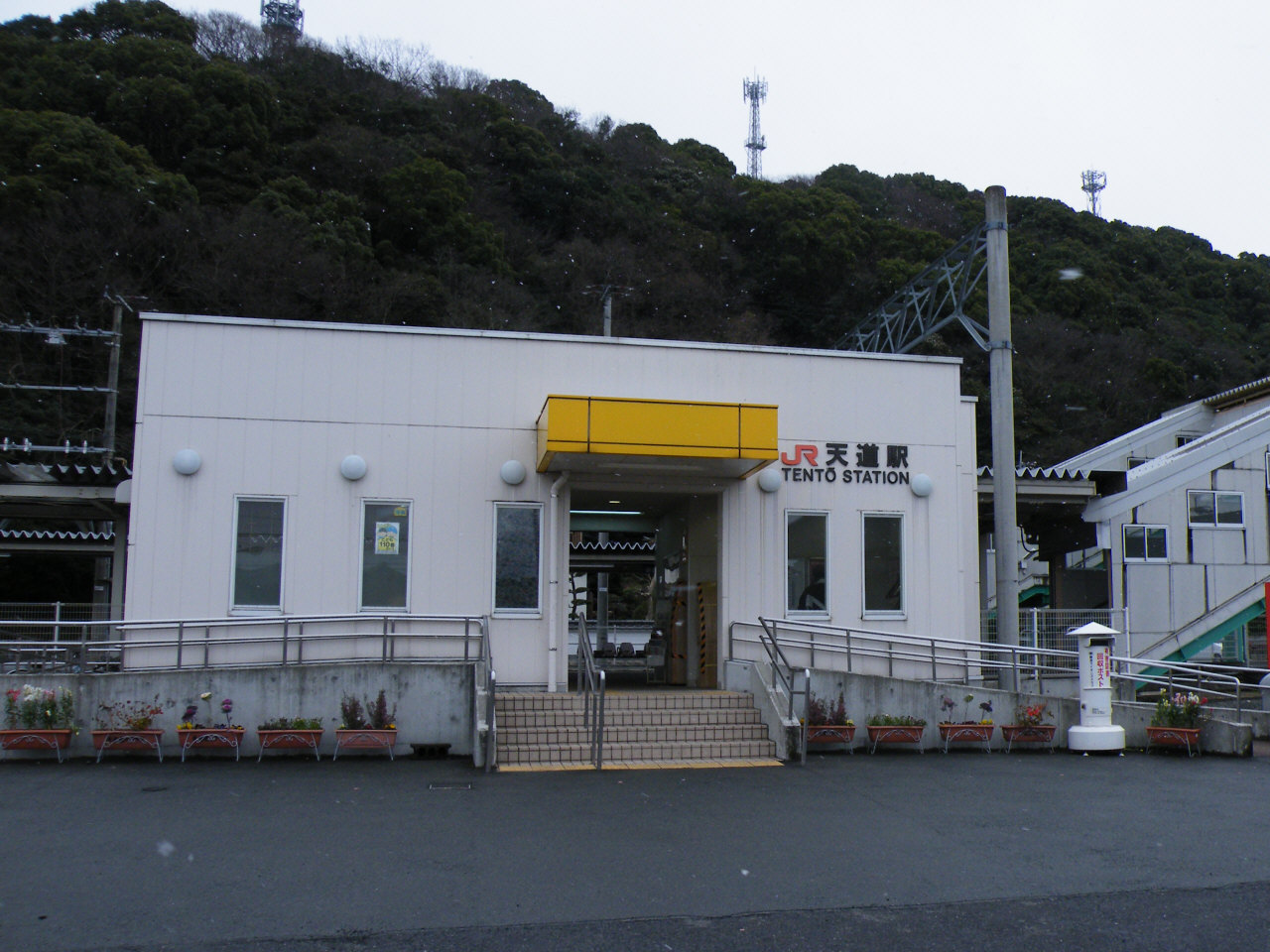 Tento Station on Chikuho Main Line